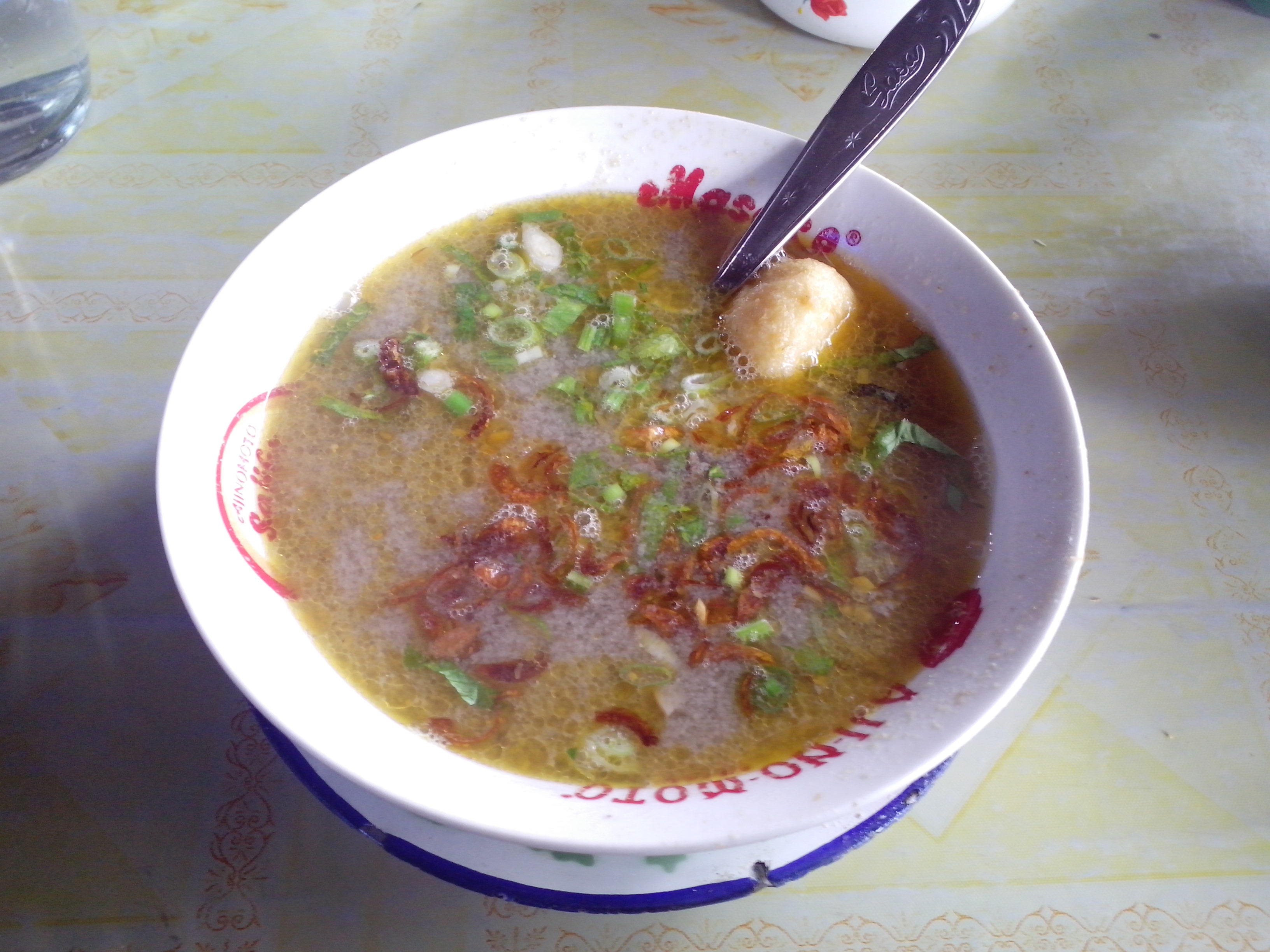 Sop Saudara is a typical soup of Makassar people with beef as its main ingredient. It is usually served with grilled fish.